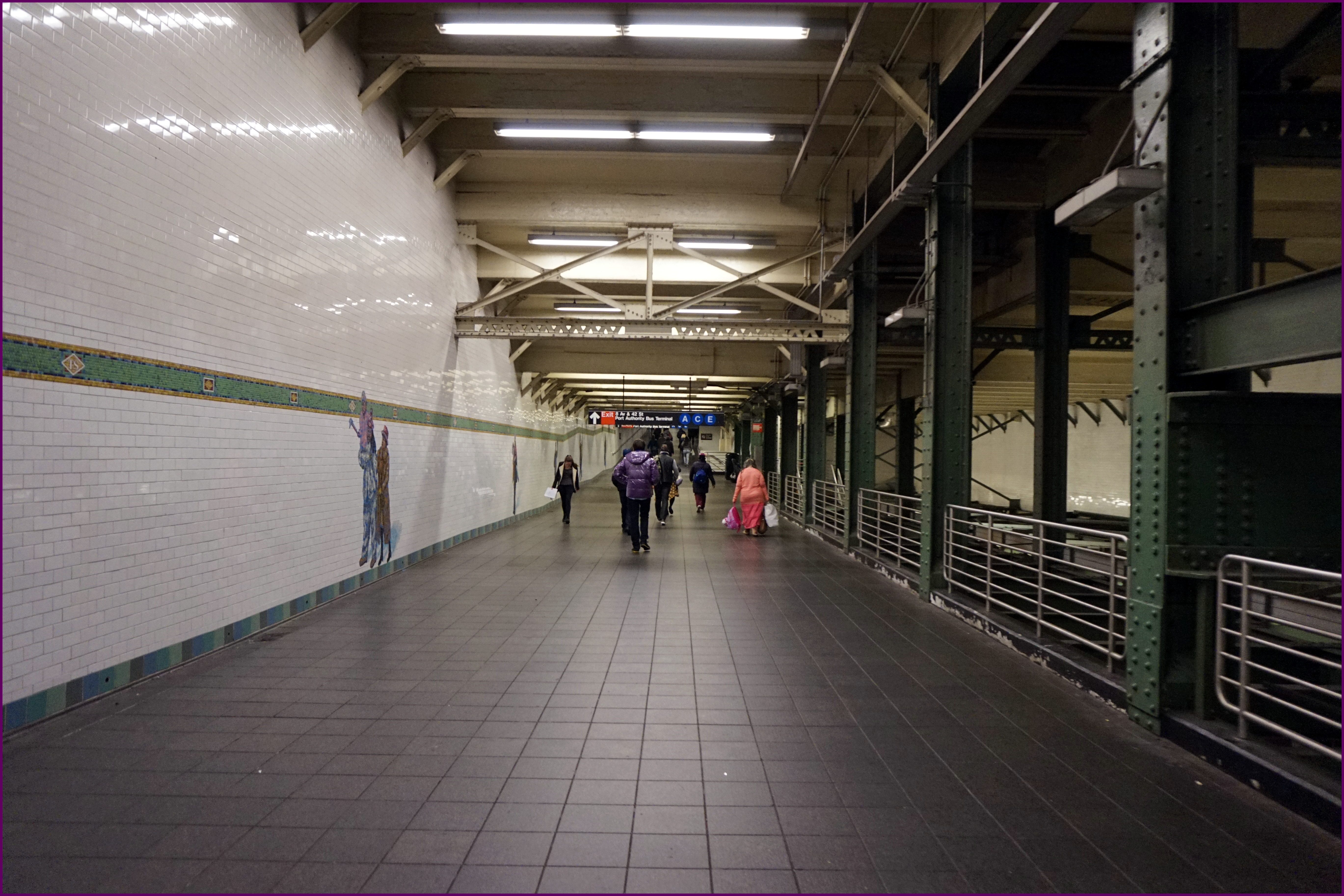 Passage between the 7 and 8 Ave Subway lines at Times Square.